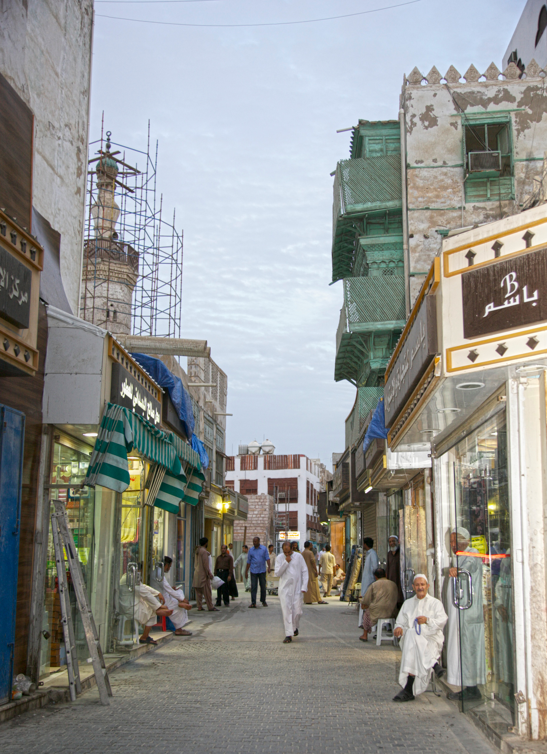 An old street in Jeddah.